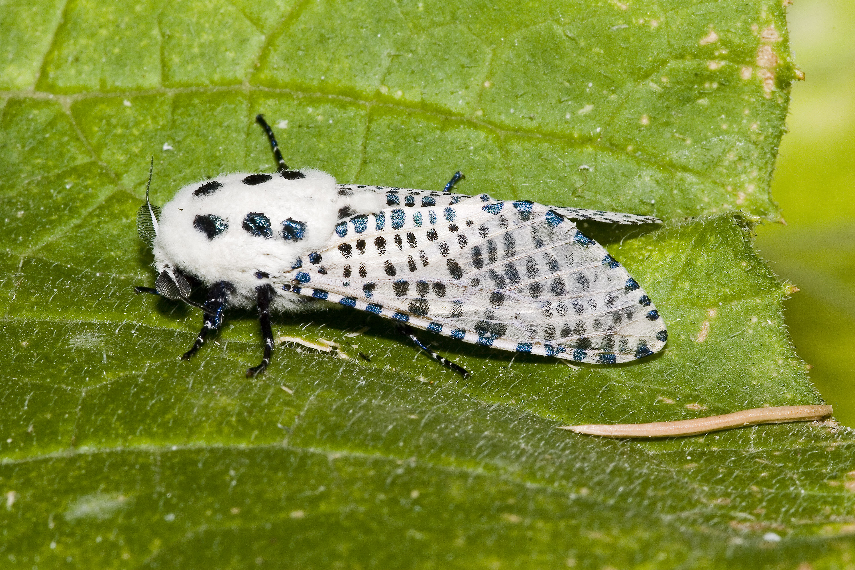 Leopard Moth male